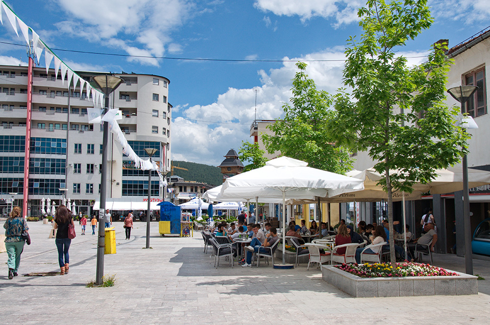 Panoramic scenes of the Pester plateau, karst region in southwestern Serbia. It situated in the area of Raska. The most part of Pešter is located in the municipality of Sjenica. The relief of Pester Plateau is characterized by low, hilly terrain, streams of clean water and vast meadows that are used for grazing sheep and cattle. Pester field is a region of outstanding natural value. A part of Pester is the Uvac River Canyon. In the canyon of the river Uvac nests large colony of eagles, vultures - Gyps fulvus.